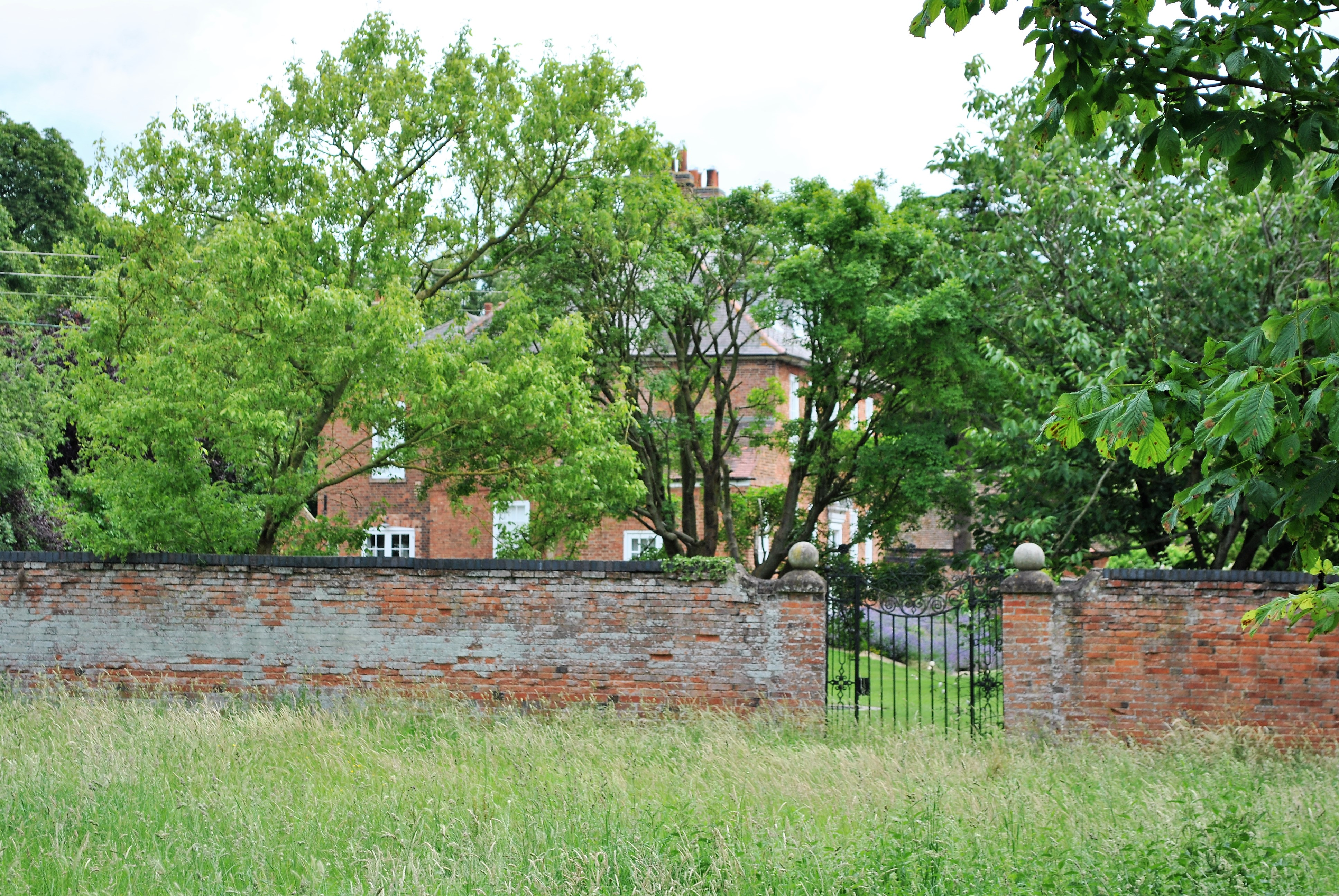 Samuel Butler was born on 4 December 1835 at the rectory in the village of Langar, near Bingham, Nottinghamshire, England, to the Rev. Thomas Butler, son of Dr. Samuel Butler, then headmaster of Shrewsbury School and later Bishop of Lichfield.